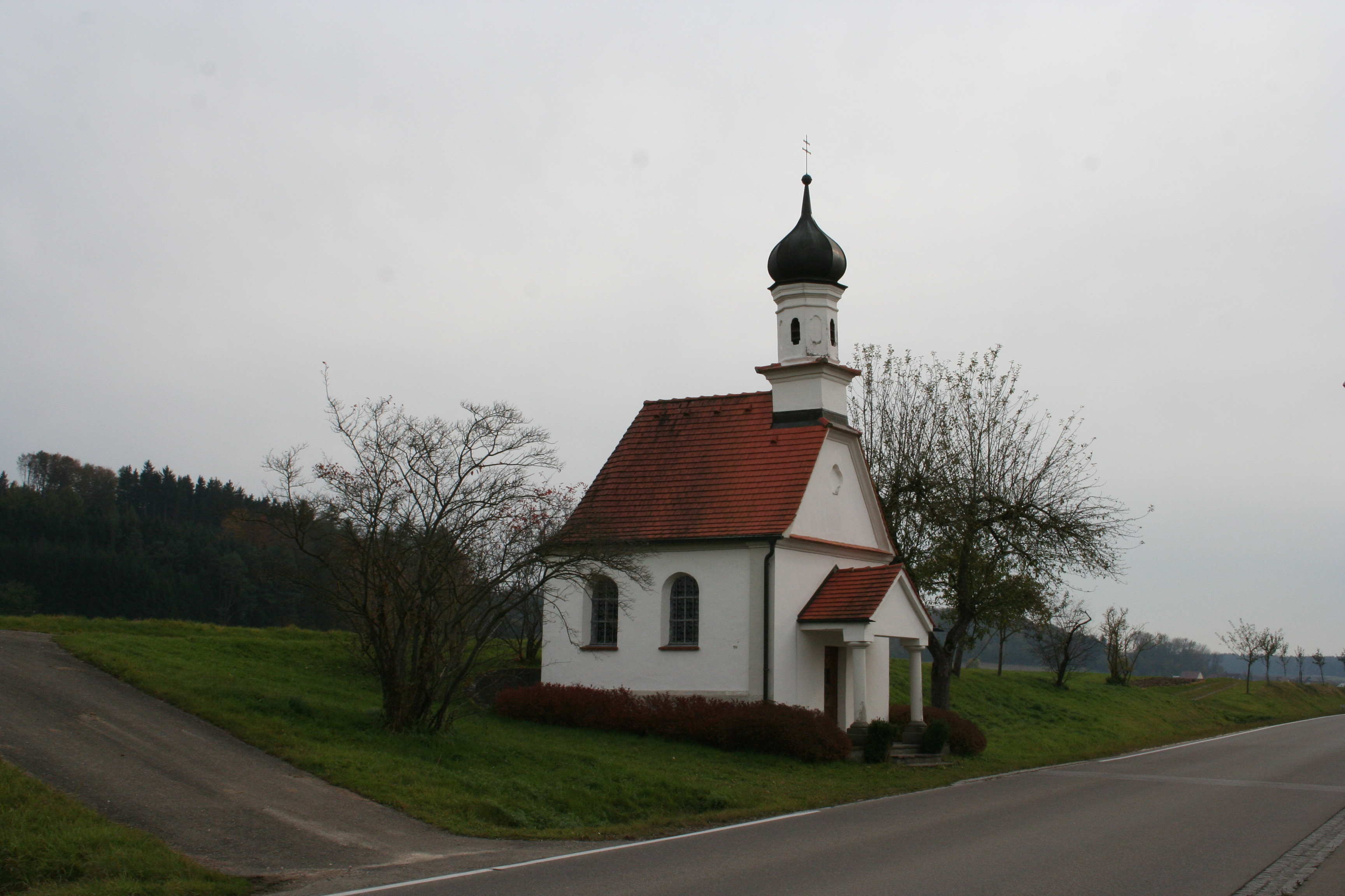 St. Maria Hirschfelden